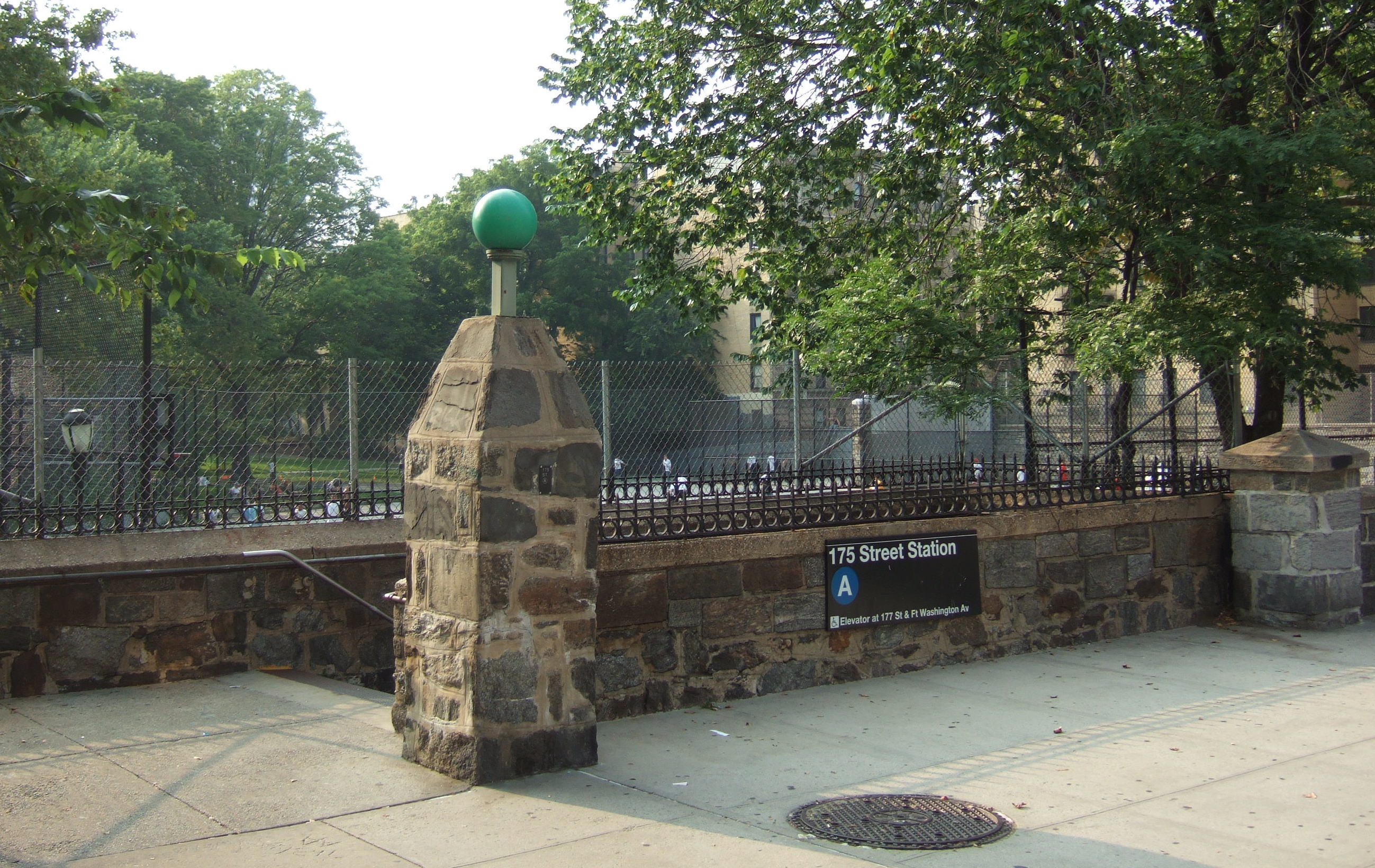 Entrance of the 175th Street subway station at the IND Eighth Avenue Line. This one is located on the west side of Fort Washington Avenue at the corner of 175th Street. The J Hood Wright Park is right behind.